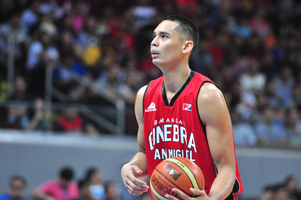 Japeth Aguilar Free Throw